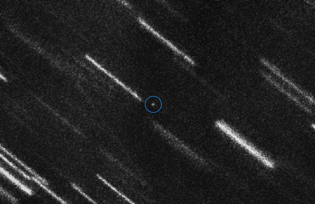 Near Earth Asteroid 2012 TC4 appears as a dot at the centre of this composite of 37 individual 50-second exposures obtained with the FORS2 instrument on ESO’s Very Large Telescope. The asteroid is marked with a circle for a better identification. The individual images have been shifted to compensate for the motion of the asteroid, so that the background stars and galaxies appear as bright trails. At magnitude 27, this is the faintest Near Earth Asteroid so far measured. A small asteroid flying past Earth on 12 October will provide scientists with a valuable opportunity to learn more about its orbit and composition. The campaign will exercise the international network of observatories and research organizations working on planetary defence. Astronomers recently spotted asteroid 2012 TC4 under a collaboration between ESA and the European Southern Observatory (ESO) to locate faint objects that might strike Earth. This is the first observation since 2012, when the asteroid was discovered by the Pan-STARRS observatory in Hawaii. It was found this time by ESO’s Very Large Telescope in Chile. The original observations revealed the asteroid’s next approach to our vicinity would be in October 2017 but its orbit meant that it could not be tracked during the last five years, leaving astronomers unsure on how close it would come. The new observations reveal it will miss Earth by 44 000 km. While it remains visible, astronomers will study the 15–30 m object in as much detail as possible, such as obtaining information on its composition. An asteroid of this size entering our atmosphere would have a similar effect to the Chelyabinsk event.The 2012 TC4 Observing Campaign is part of a larger international initiative led by NASA. The campaign is an excellent opportunity to test the international ability to detect and track near-Earth objects and assess our ability to respond together to a real asteroid threat.